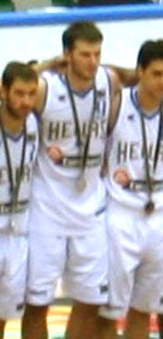 Image of Antonis Fotsis cropped from Image:Basketball WC 2006 Final 3.jpg